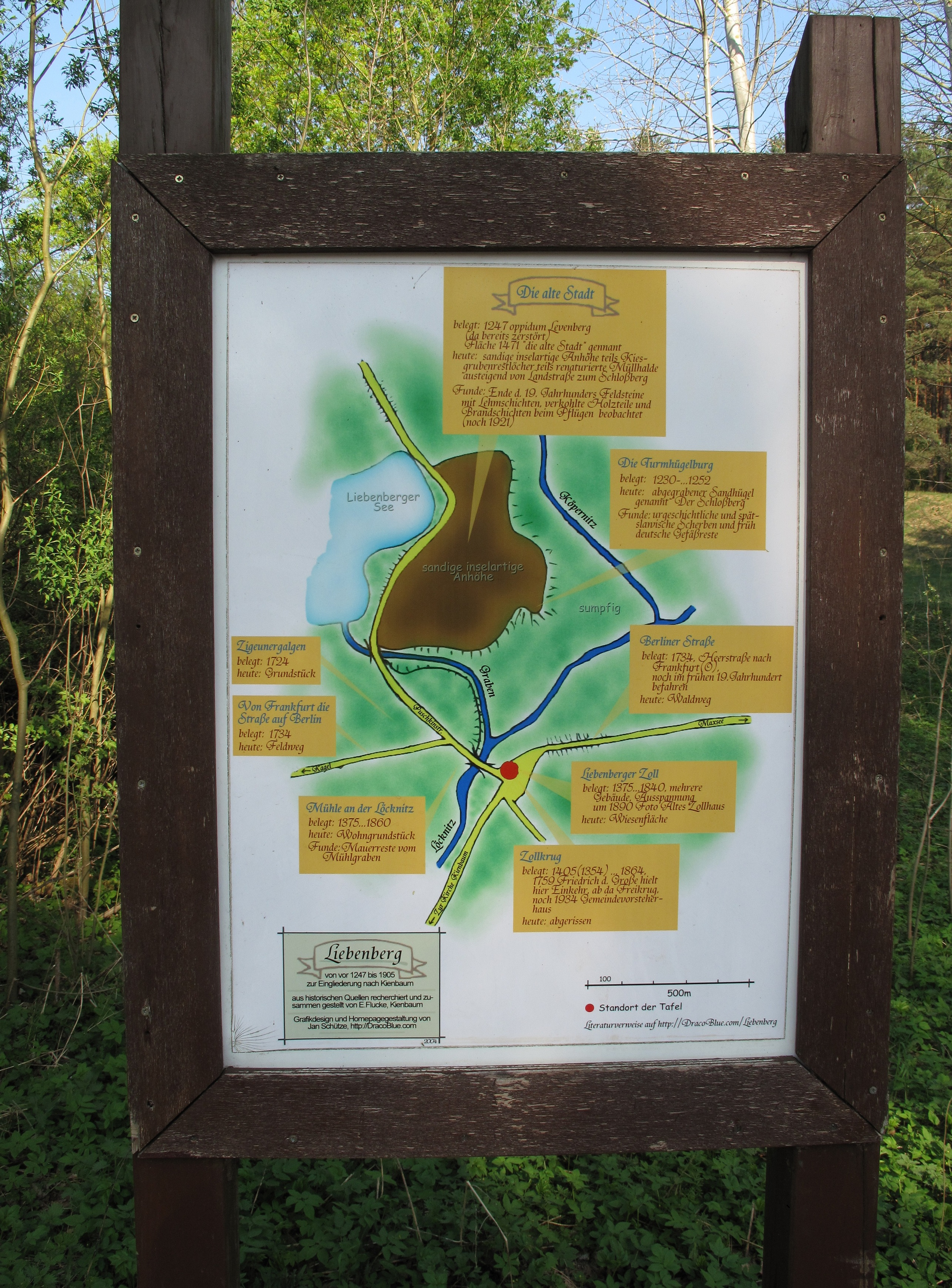 Information board/map in Liebenberg, a part of Kienbaum, district of the municipality Grünheide. The board is situated on the bridge over the river Löcknitz and referres the Stobberbach with its historical name Köpernitz. The Stobberbach (also called Stöbberbach or Köpernitz) is a river in the hill country „Märkische Schweiz“, Brandenburg, Germany. The stream runs over a distance of 6 kilometers from the lowland moor and source area Rotes Luch towards the southwest to the district Kienbaum of the municipality Grünheide. Here it merges with the Mühlenfließ (coming from the Maxsee) to the river Löcknitz (Spree), whose waters run over the rivers Spree, Havel and Elbe to the North Sea. According to the inscription the map was created by historical sources from E. Flucke, Kienbaum. The graphic design did Jan Schütze